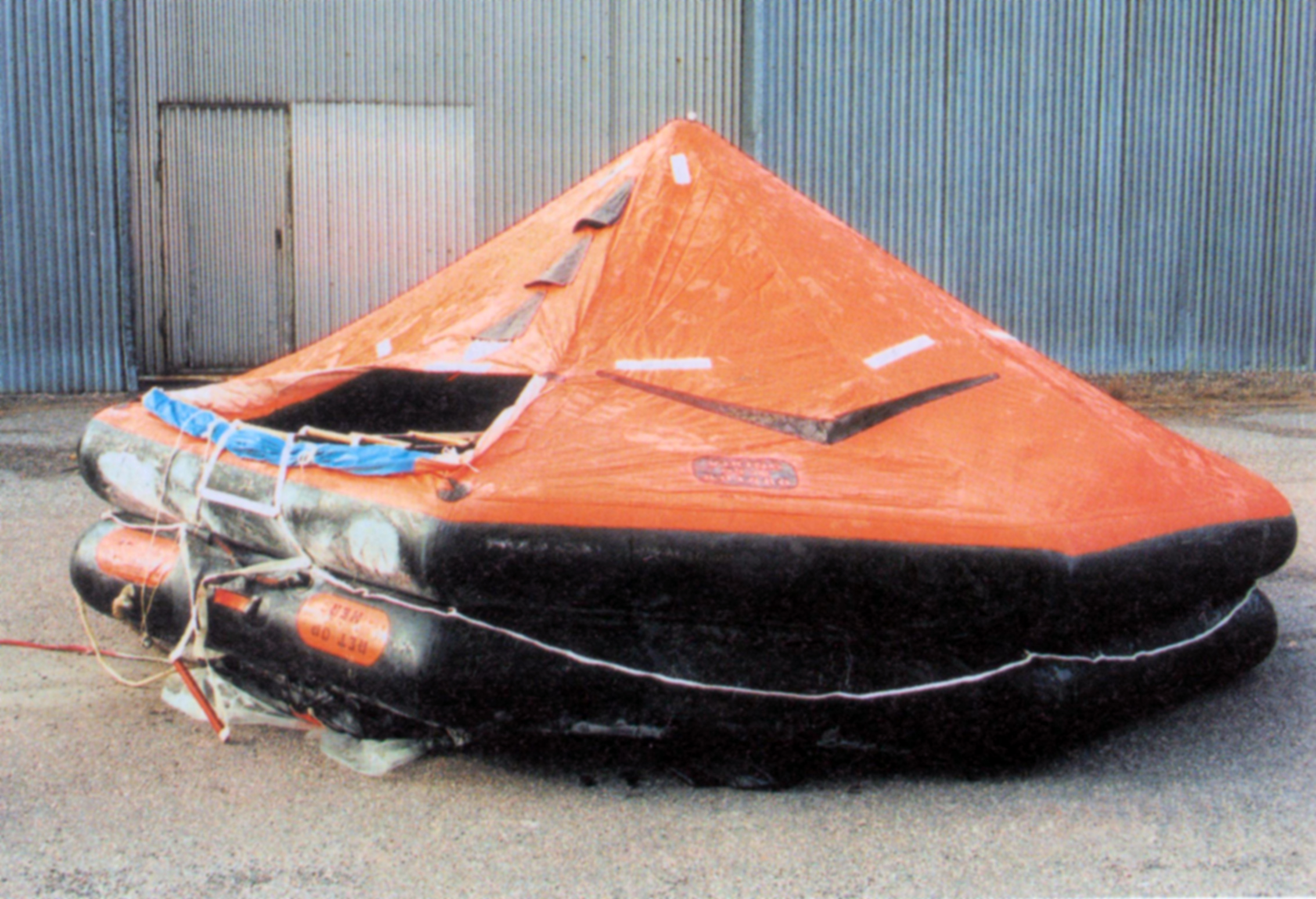 Liferaft from MS Estonia.